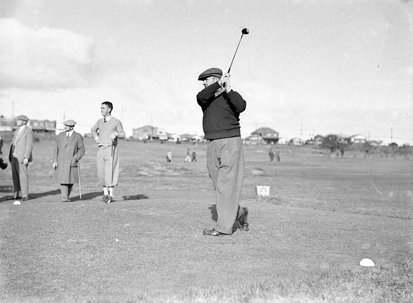 Golfer Ivo Whitton at the Australian Golf Club in Rosebery, New South Wales, Australia.